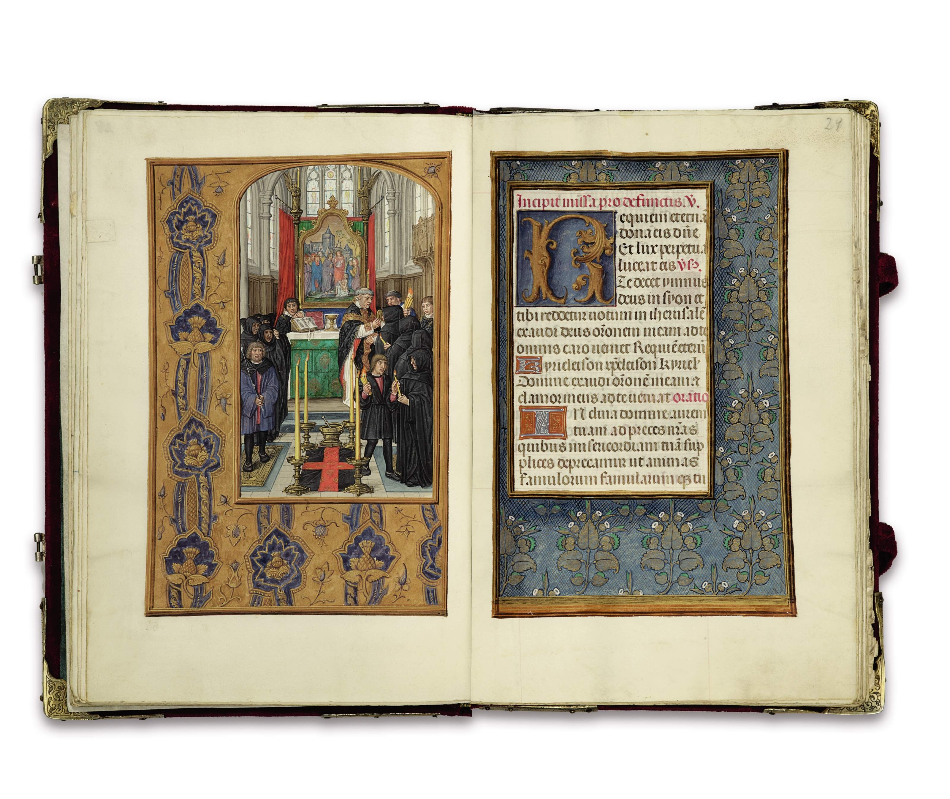 Info Christie's, LotFinder: entry 5766082 (sale 2819, lot 157) Rothschild Prayerbook